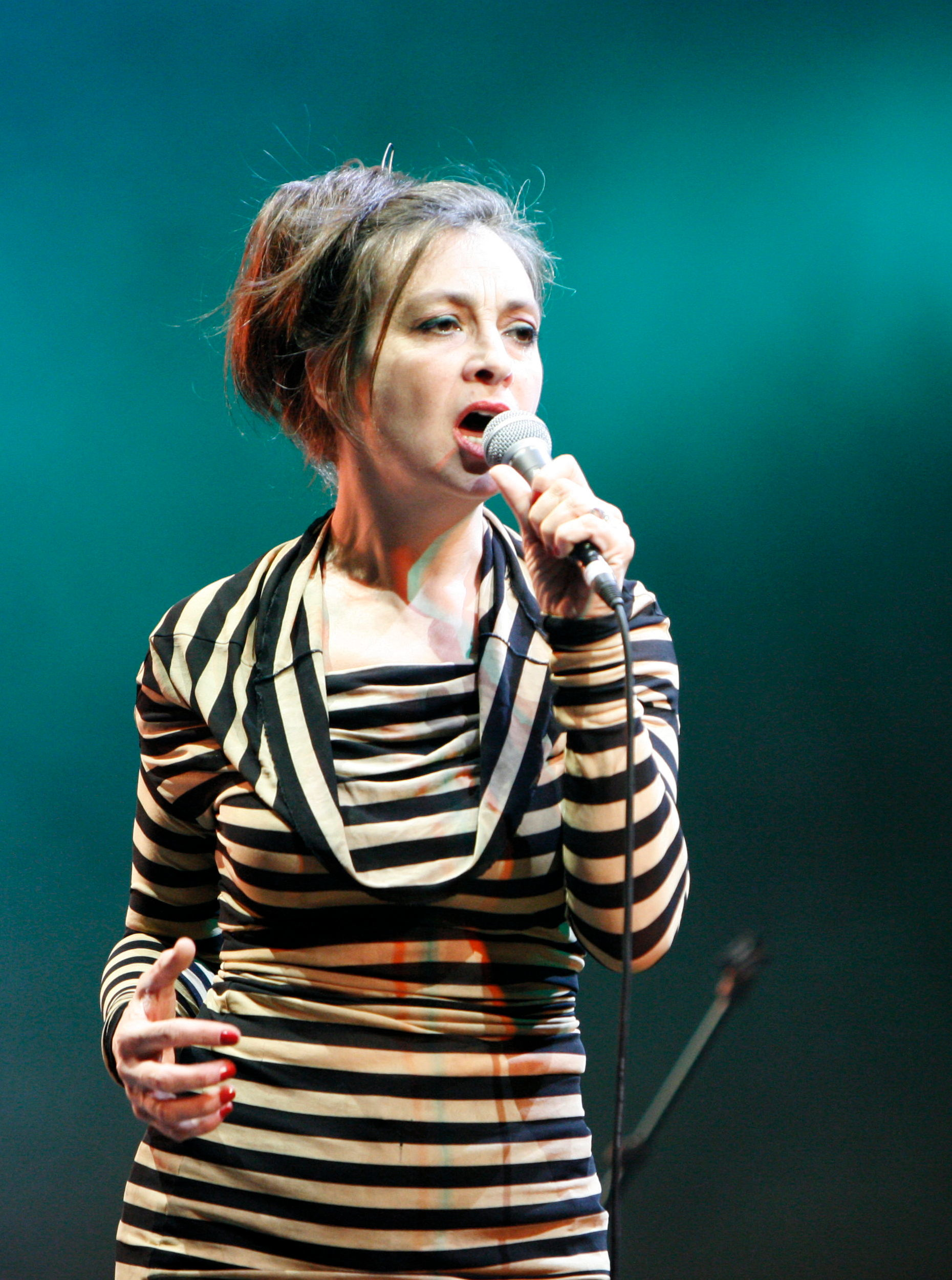 Cropped version of a larger image showing Catherine Ringer, from the band Les Rita Mitsouko at the Eurockéennes Festival of 2007.